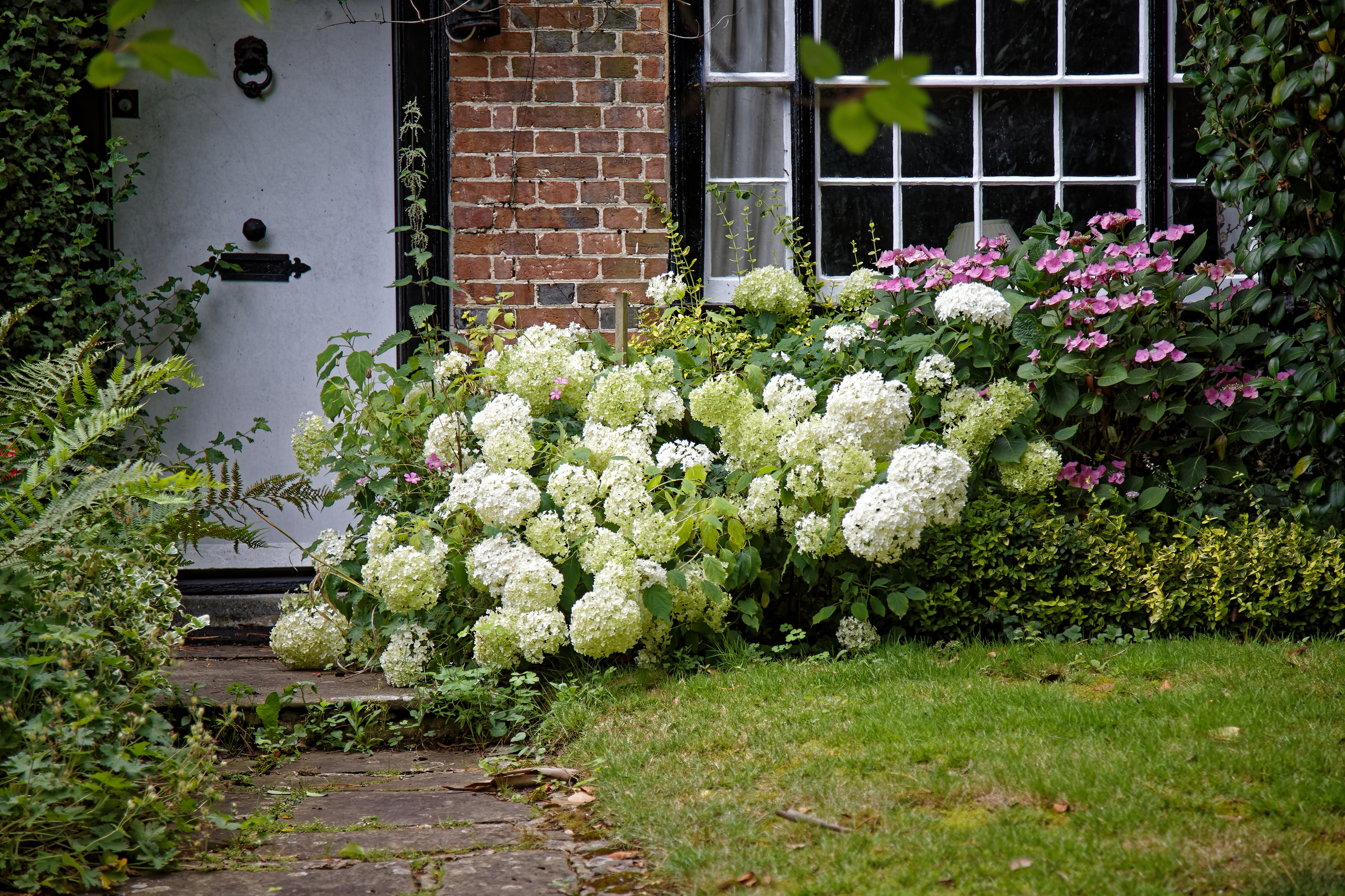 Hydrangea arborescens at an 18th-century house, previously a post office, and Grade II listed as 'The Old Post Office', on Nuthurst Street in the village of Nuthurst, West Sussex, England.According to local knowledge, this is the building that many years ago was watched over from a window in the Black Horse Inn pub, opposite, by a man whose wife visited her lover, the postmaster, whom he subsequently murdered and buried in St Leonard's Forest. The spirit of the murderer has since haunted the pub's window table, apparently still watching over this house for the appearance of his wife. His presence is known by people observing pints of beer and other objects sliding across tables in the same position without human agency: see 'Haunted table' of The Black Horse InnMobile device view: Wikimedia (at August 2019) makes it difficult to immediately view photo groups related to this image. To see its most relevant allied photos, click on Nuthurst, and this uploader's Flowers, and Gardens photos. You can add a beta click-through 'categories' button to the very bottom of photo-pages you view by going to settings... three-bar icon top left.Desktop view: Wikimedia (at August 2019) makes it difficult to immediately view the helpful category links where you can find images related to this one in a variety of ways; for these go to the very bottom of the page.This image is one of a series of date and/or subject allied consecutive photographs kept in progression or location by file name number and/or time marking.Camera: Canon EOS 6D Mark II with Canon EF 24-105mm F4L IS USM lens.Software: File lens-corrected, optimized, perhaps cropped, with DxO PhotoLab Elite, and likely further optimized with Adobe Photoshop CS2.